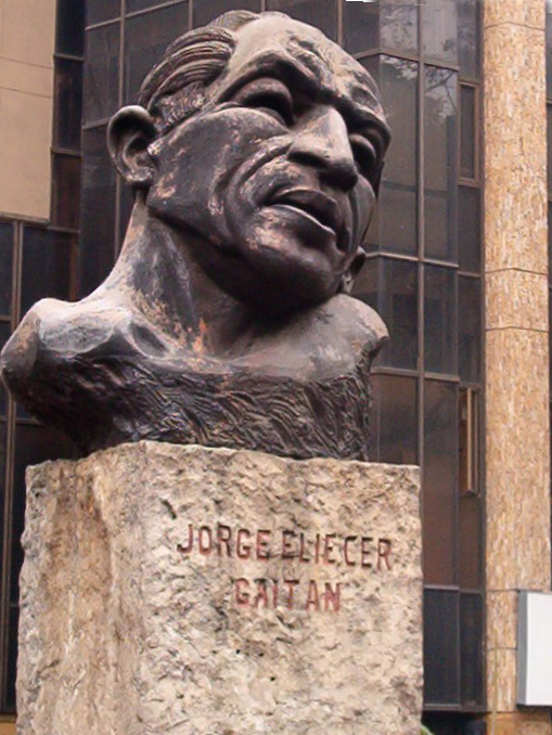 Taken by myself. Medellin, Colombia, August 2003. Glasperlenspiel 18:33, 1 March 2007 (UTC)